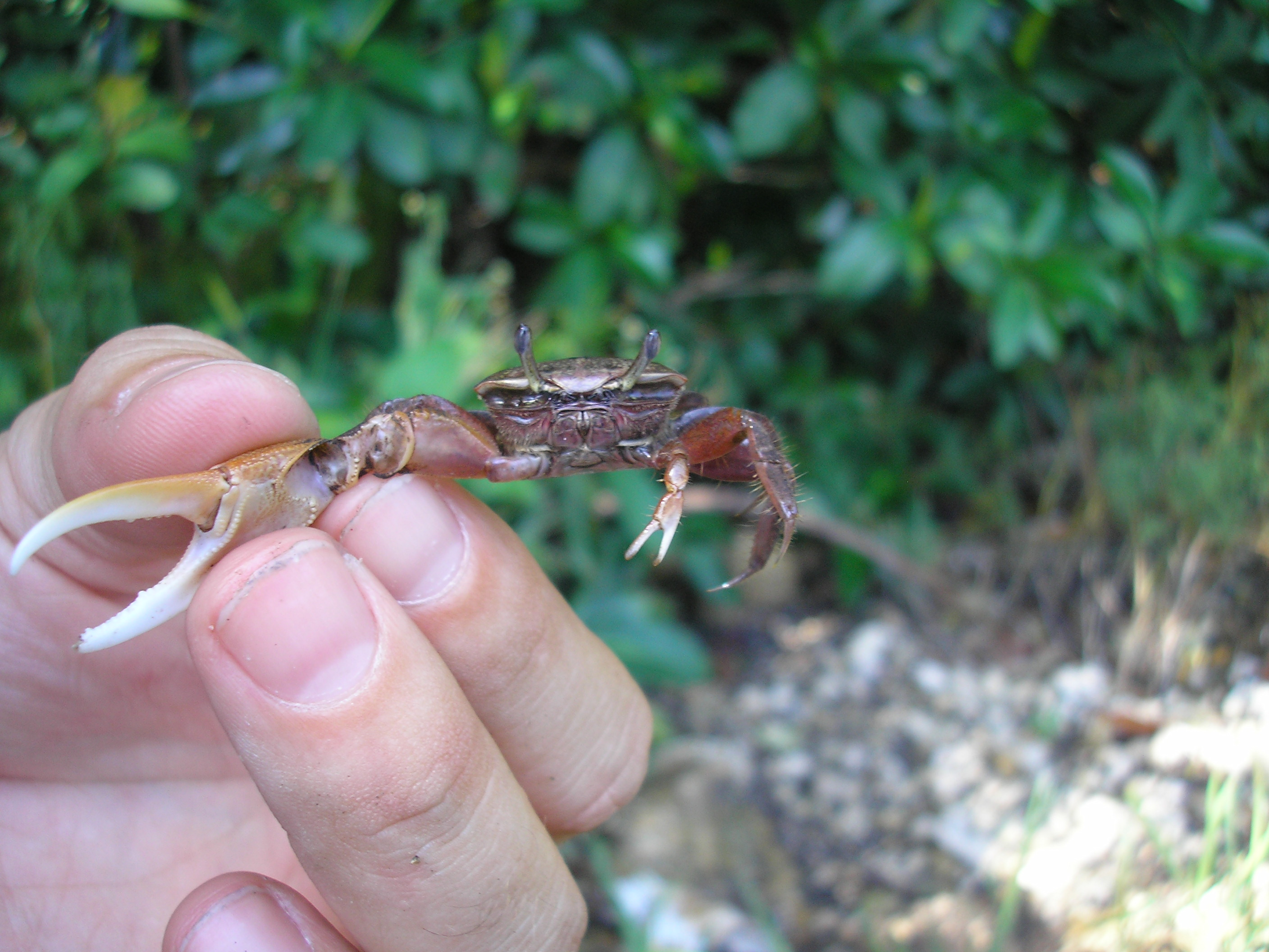 A fiddler crab (Uca sp.) found in a sediment core at Matheson Hammock.